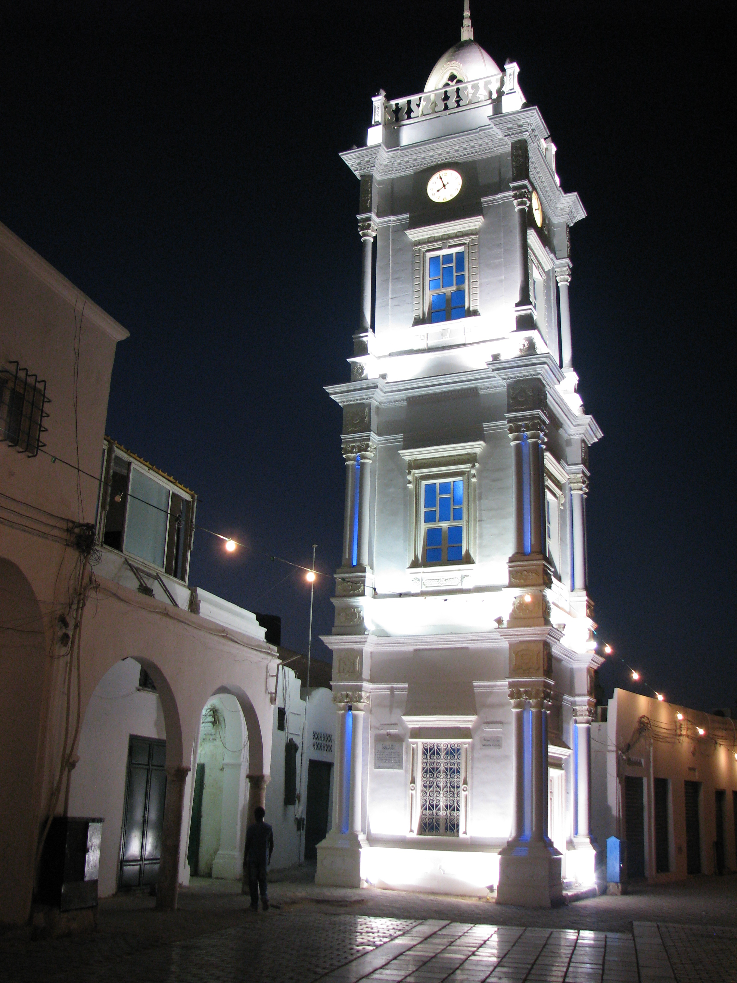 Ottoman Clock Tower — in the old town El-Medina, Tripoli, Libya.